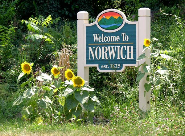 Norwich neighborhood sign in Roanoke, Virginia, USA